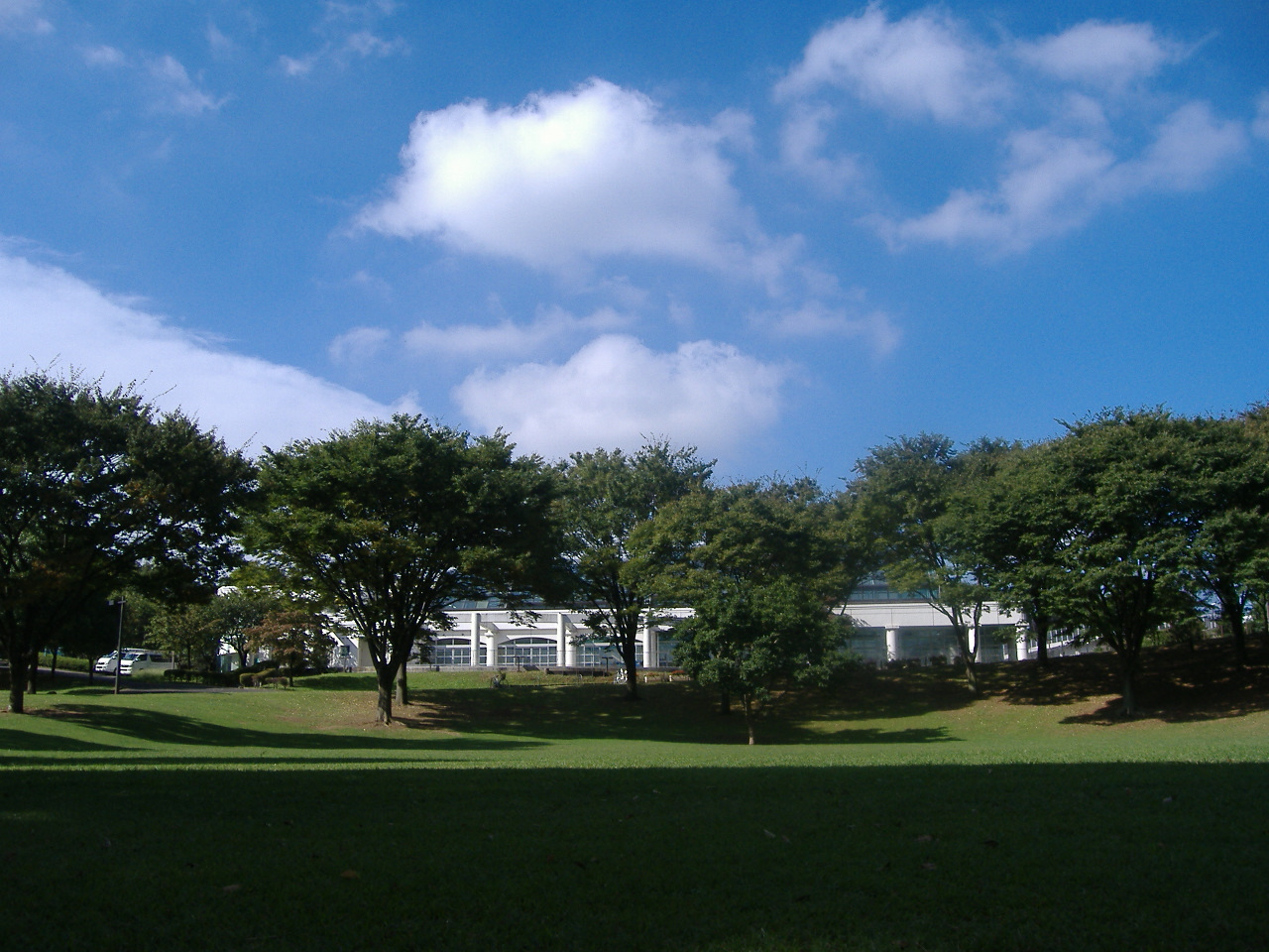 Shimizugaoka park(Yokohama, japan)